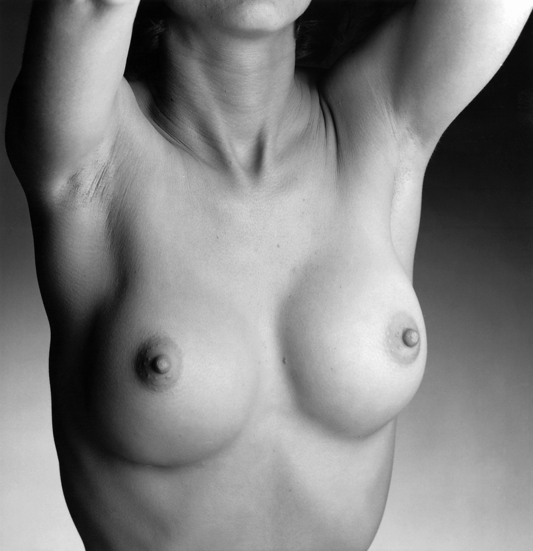 Title Breast Exam (Series of 16) Description This is a series of 16 photos demonstrating the 16 steps of a clinical breast examination. The image shows a female nude from the waist up. The steps are as follows: 1) arms in normal position 2) arms on hips 3) pressed forward elbows 4) pressed forward 5) arms overhead 6) arms overhead 7) arms raised and pressing down 8) exam of cervical nodes 9) exam of supraclavicular 10) infraclavicular 11) axilla 12) exam of breast 13) axilla 14) breast exam 15) exam of nipple 16) exam of nipple for discharge. Topics/Categories Test or Procedure -- Physical Exam Type B&W, Photo Source National Cancer Institute